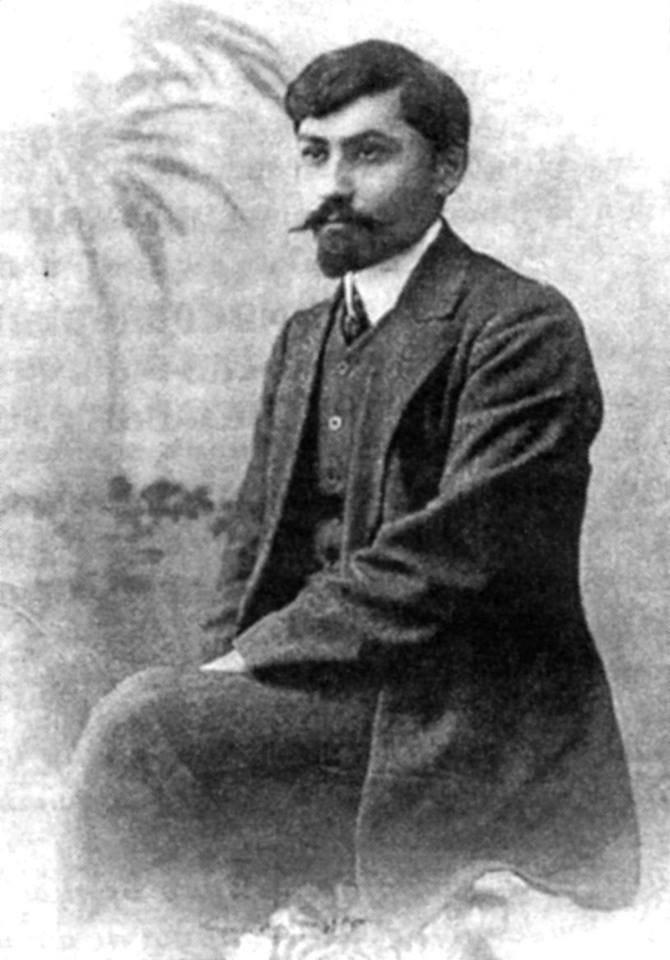 Drastamat Kanayan as a politician.